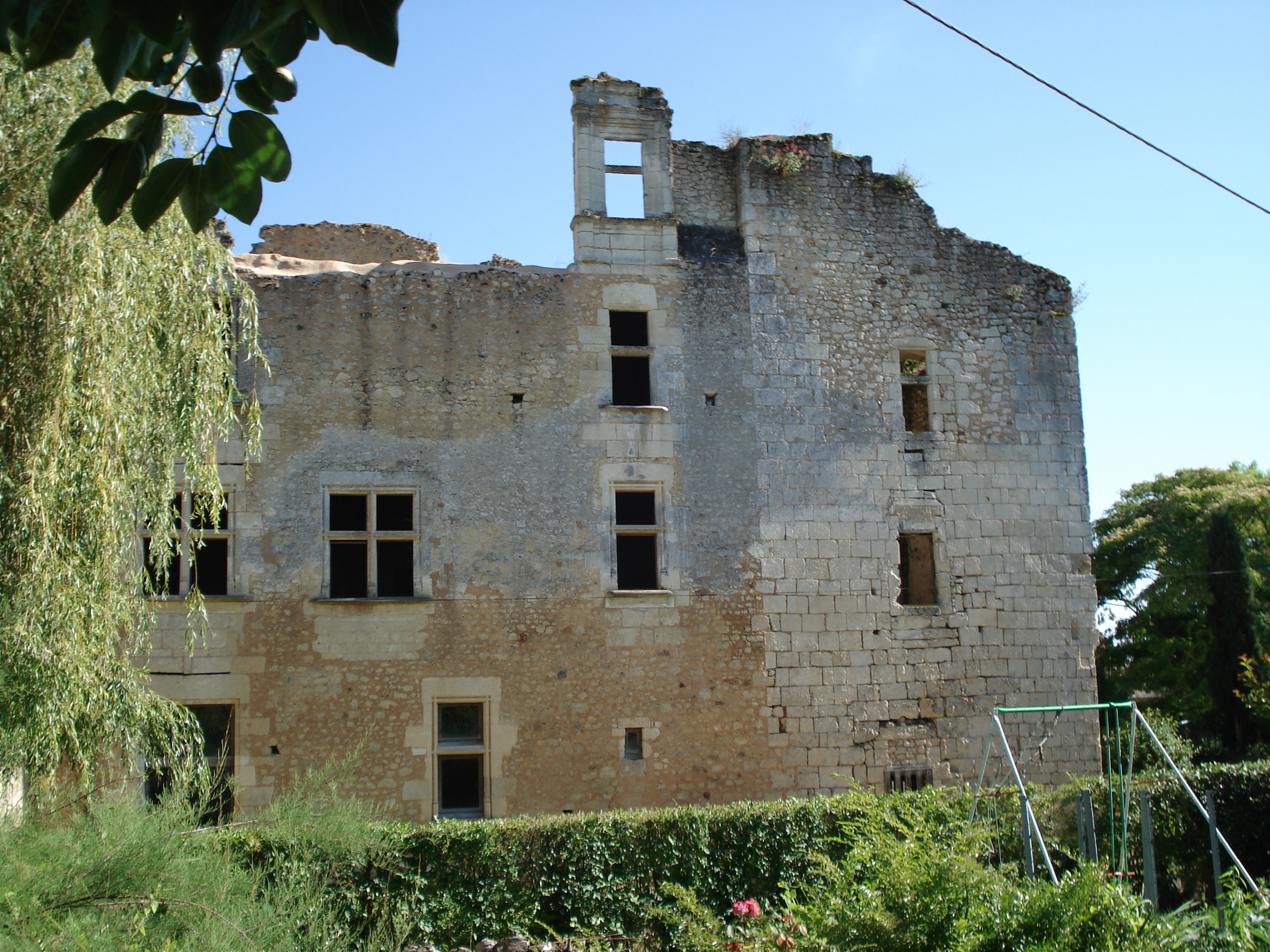 Chateau Barrière